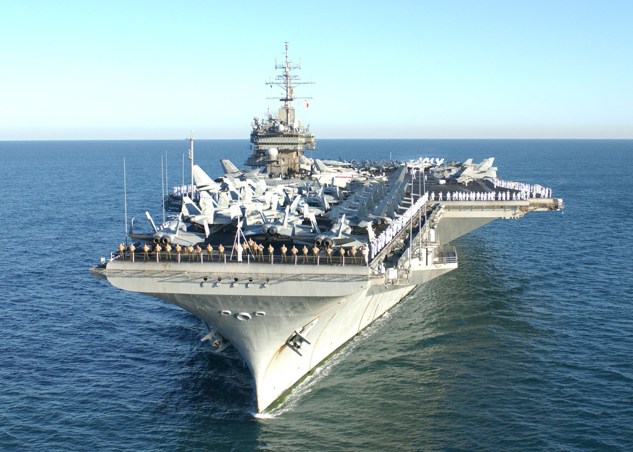 Sailors “man the rails” aboard the U.S. Navy aircraft carrier USS Constellation (CV-64) as it pulls into Perth, Australia, for a port call on her return transit to her homeport of San Diego, California (USA). Constellation, with assigned Carrier Air Wing 2 (CVW-2), was deployed to the Western Pacific and the Indian Ocean from 2 November 2002 to 2 June 2003. This was her last deployment before her decommissioning on 7 August 2003.